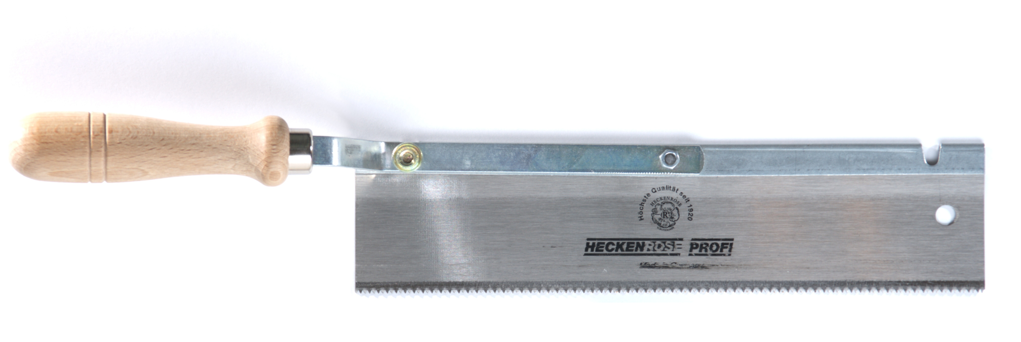 Backsaw